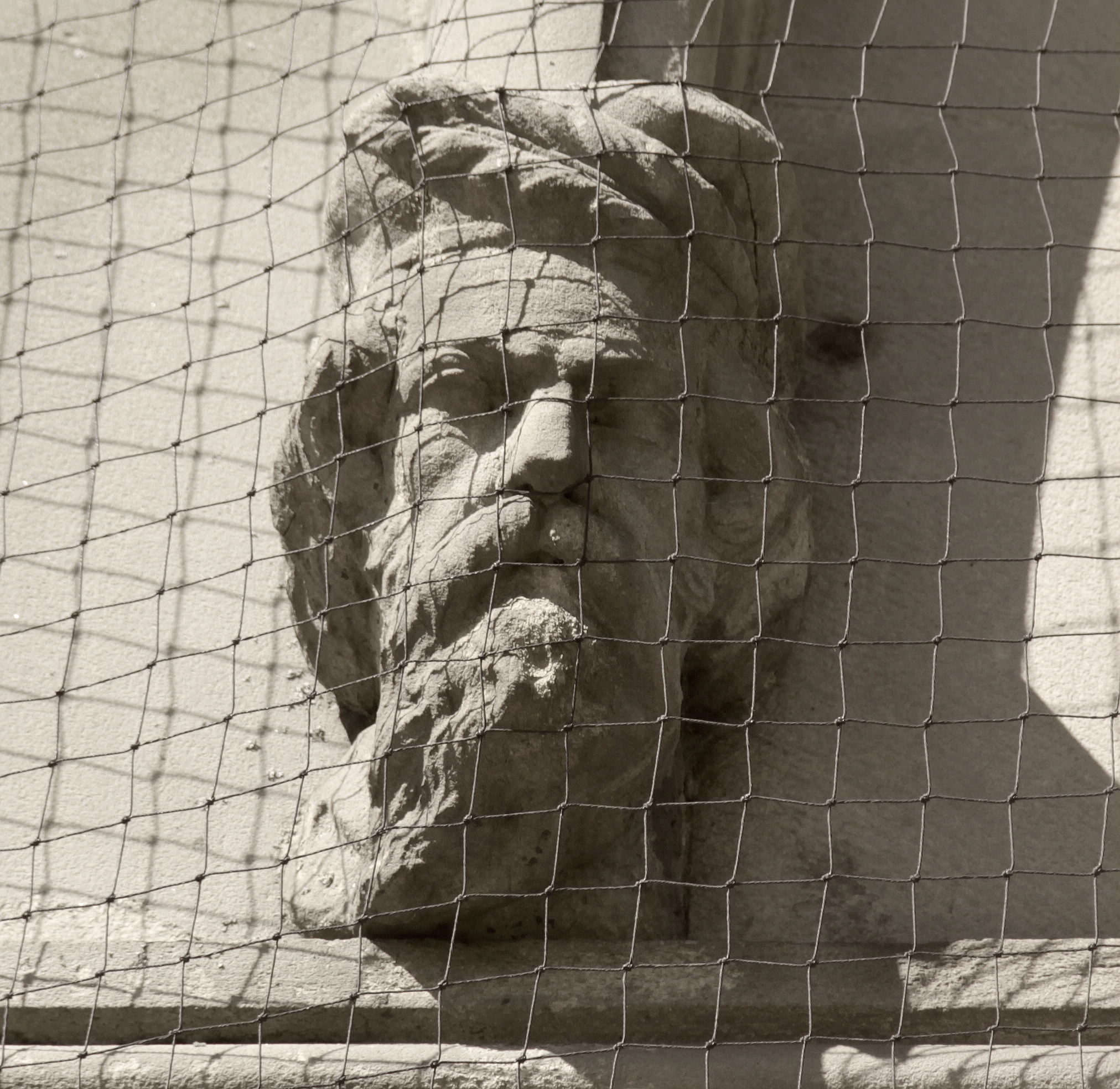 Architectural sculpture on former Commercial Bank, Bradford (now Natwest Bank) at 7 Hustlergate, Bradford, West Yorkshire. Designed by Andrews & Pepper in 1867 and opened in 1868. All exterior carving is by Mawer & Ingle of Leeds. The carving has a maritime theme throughout, in reference to 19th century British colonial sea trade, which was a source of profit for the bank. This theme includes friezes of waves, mythical or imaginary sea creatures, and mariners. Showing label stop, a portrait of William Ingle with a feather in his cap, because the animal carvings on this building are his work.